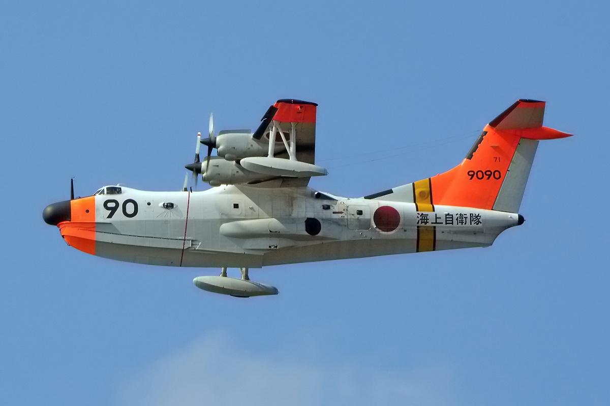 9090 (cn 2020) The absolute star of the 60th Anniversary flypast - one of just two of the original 14 remaining in service, based at Iwakuni with 71 Kokutai